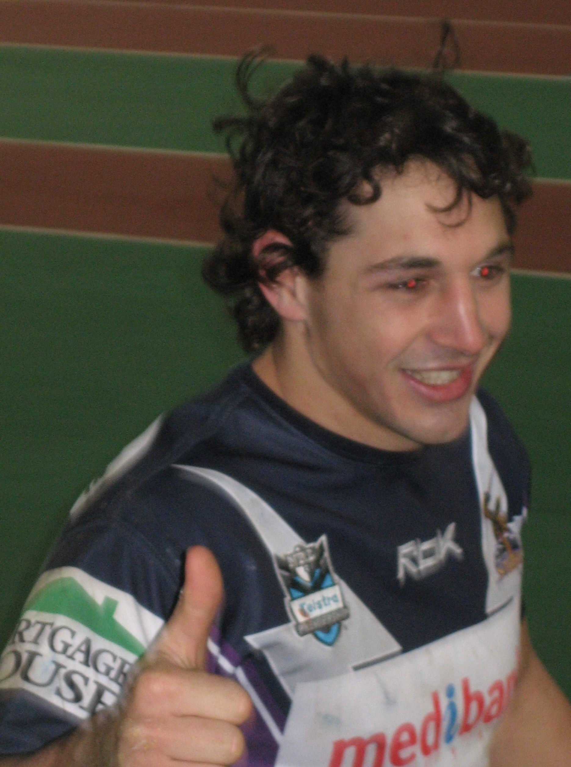 Billy Slater